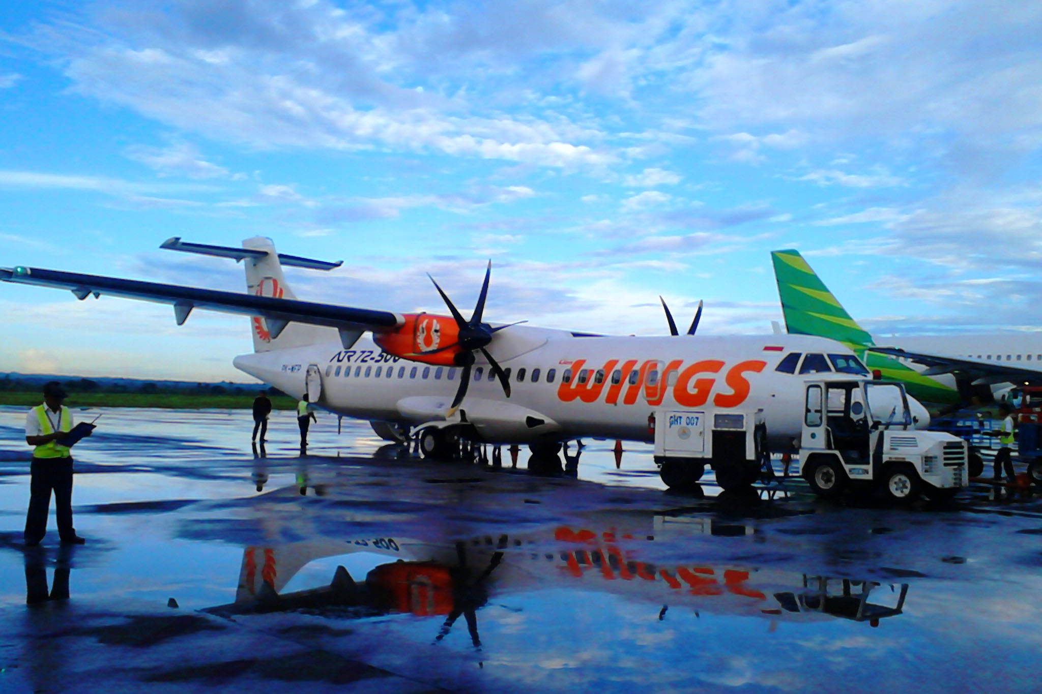 Wings Air ATR 72-500 at Lombok International Airport